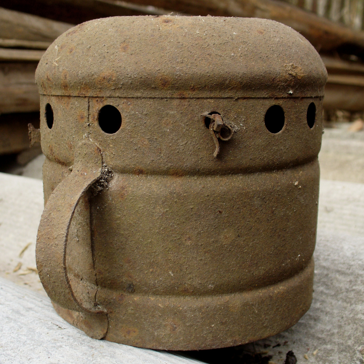 Burner pot of the kerogaz, a portable kerosene-powered stove.